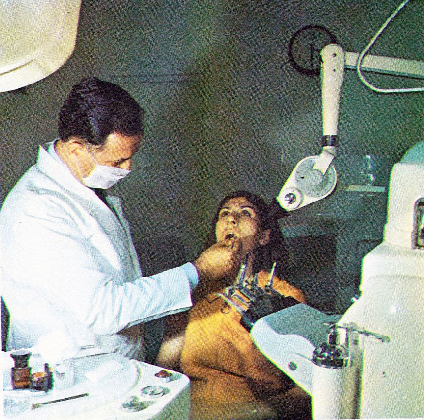 National Iranian Oil Company employees' dental care.